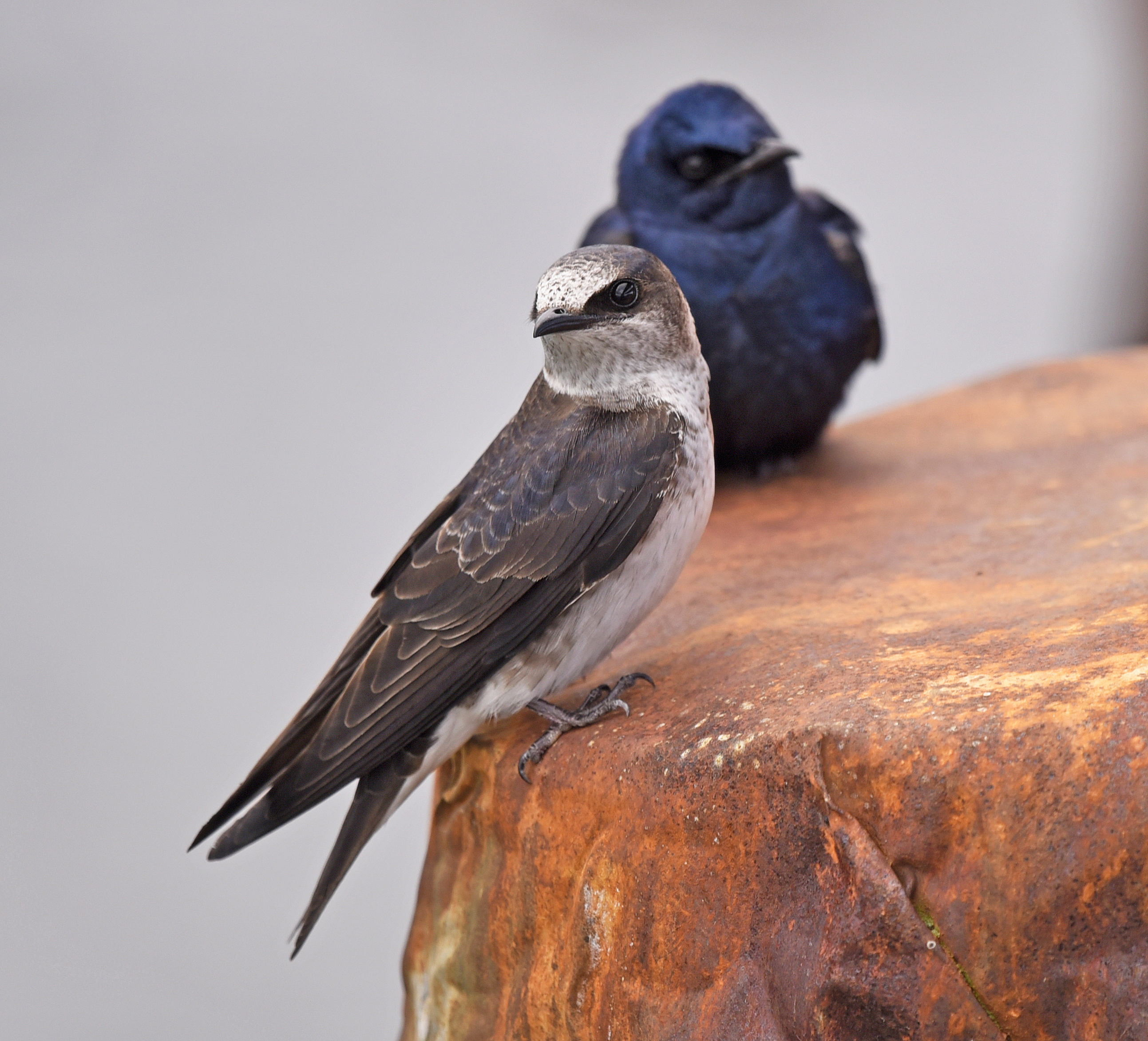 Purple Martin, pair (female in foreground)